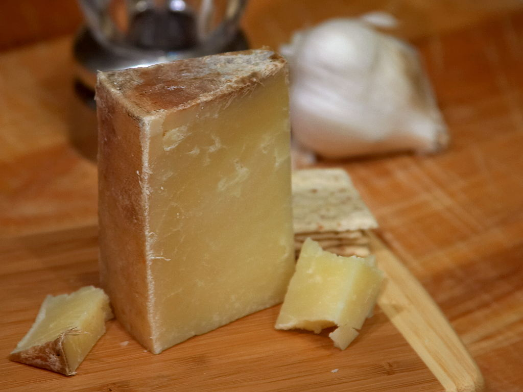 Bravo Silver mountain Bandaged Wrapped Cheddar.